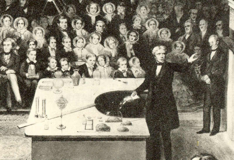 Michael Faraday, nineteenth century scientist and electrician, shown delivering the British Royal Institution's Christmas Lecture for Juveniles during the Institution's Christmas break in 1856. The original artist is unknown. I would assume that this work is also the basis for the engraving on the 1991-93 20 pound note of Great Britain (Image:Farady20poundNote.png).